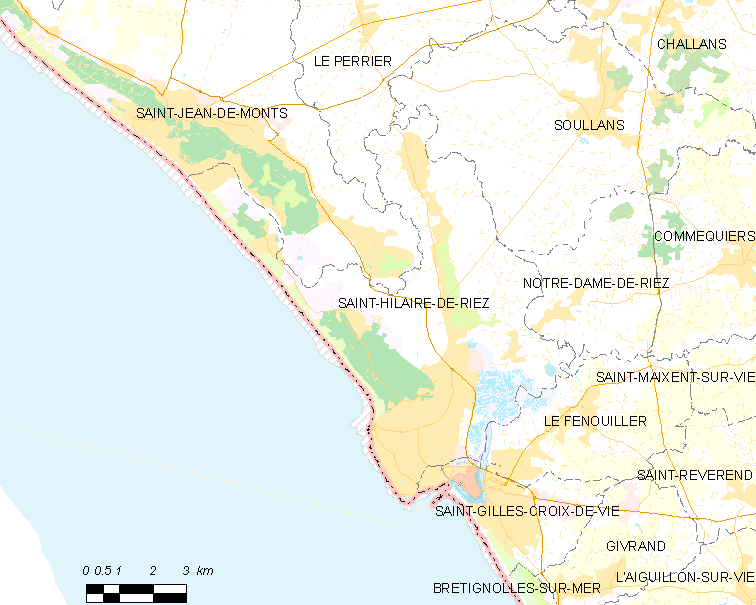 Map of French municipality Saint-Hilaire-de-Riez